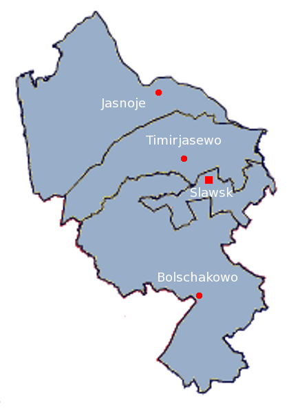 The administrational division of the Slavsky District in German transcription